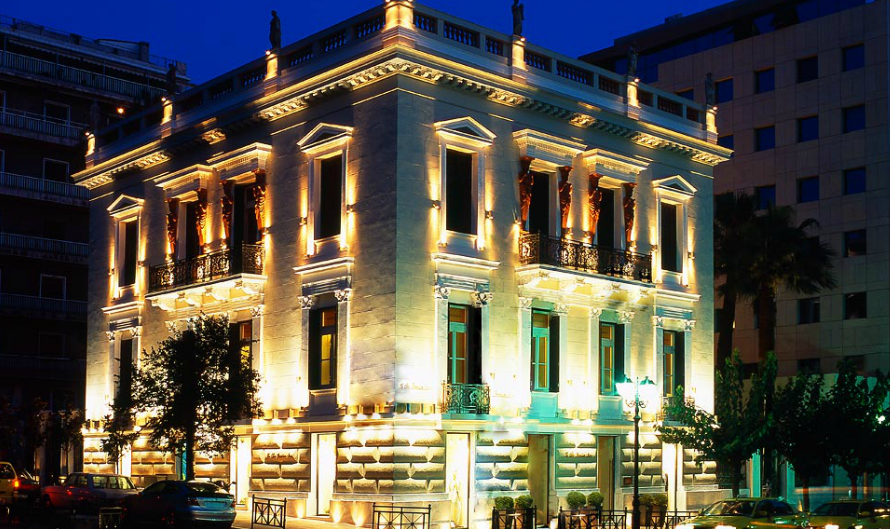 Spyros Metaxas Mansion in Piraeus as seen today, not far away from the first distillery of his METAXA